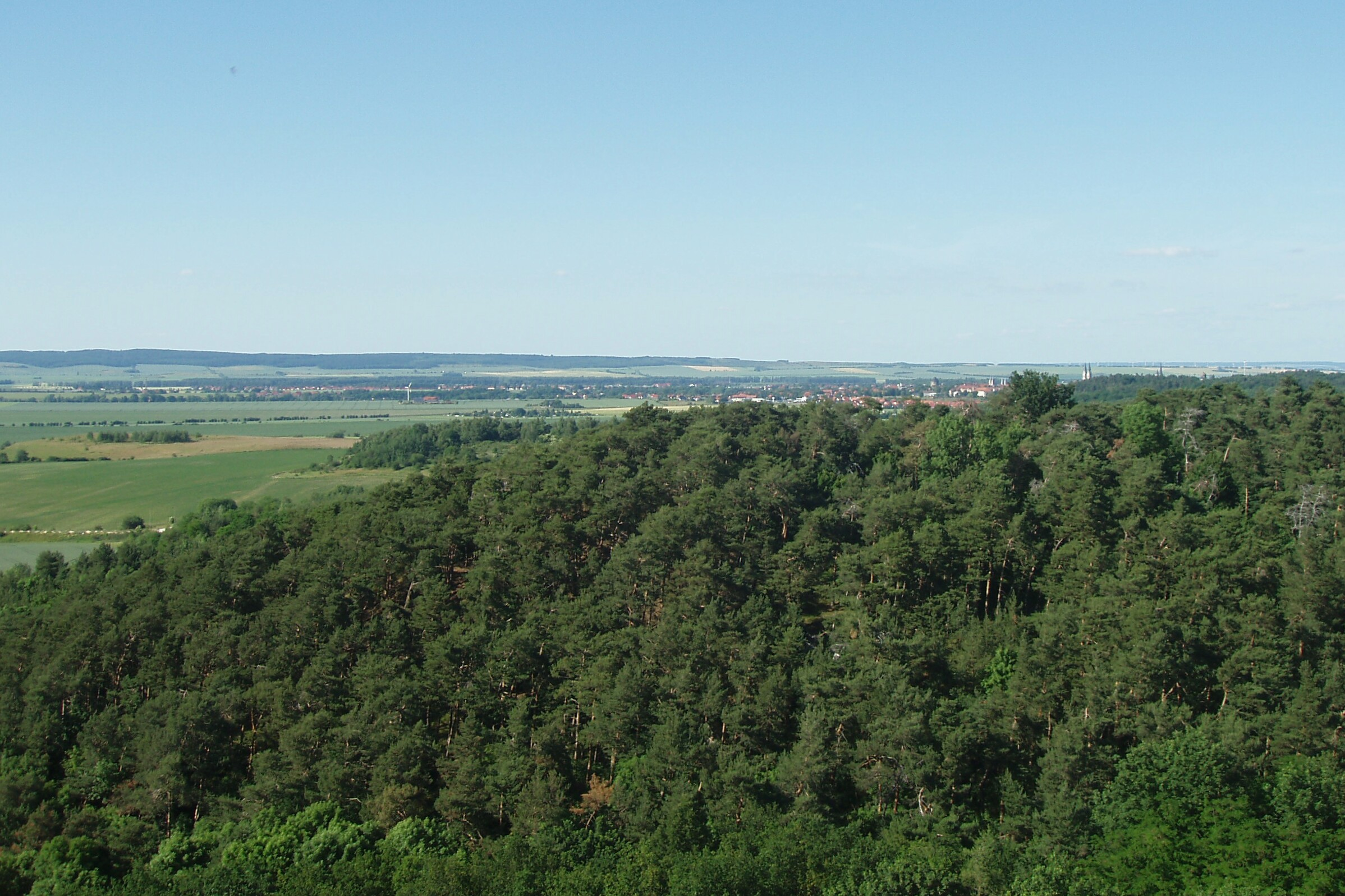 Blick aus Richtung Gläserner Mönch in den Thekenbergen auf Halberstadt und zum Höhenzug Huy (am Horizont links bis etwa Bildmitte)